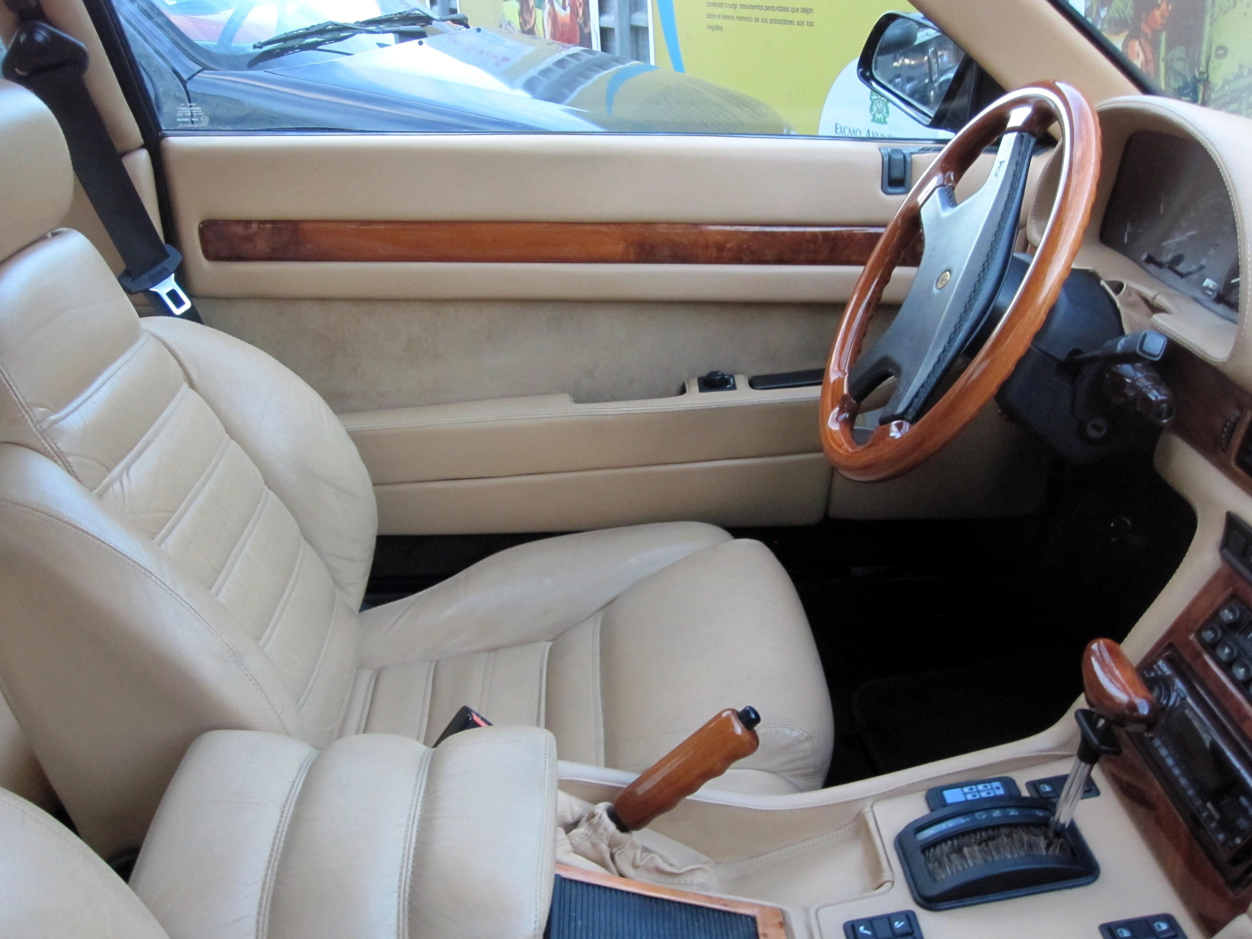 I was so happy to see this! Love all these "squarish" looking Maseratis from the eighties and nineties. They're always said to be unreliable but I would want one anyway. What an interior! Was seen in Castro Urdiales (Cantabria). The red plates might mean a recent import.